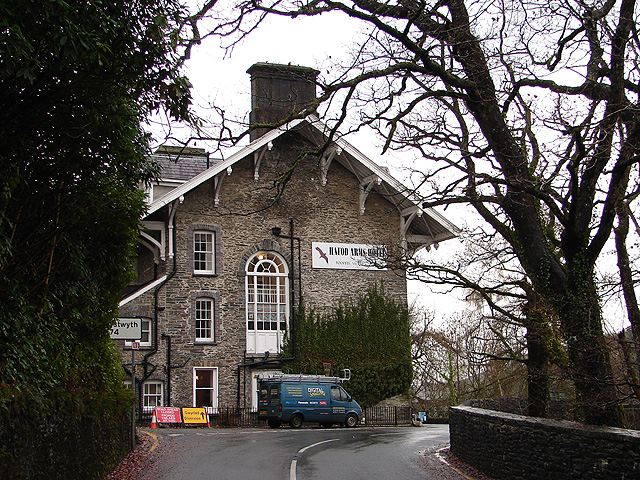 Hafod Arms Hotel, overlooks the falls at Devil's Bridge, Ceredigion.